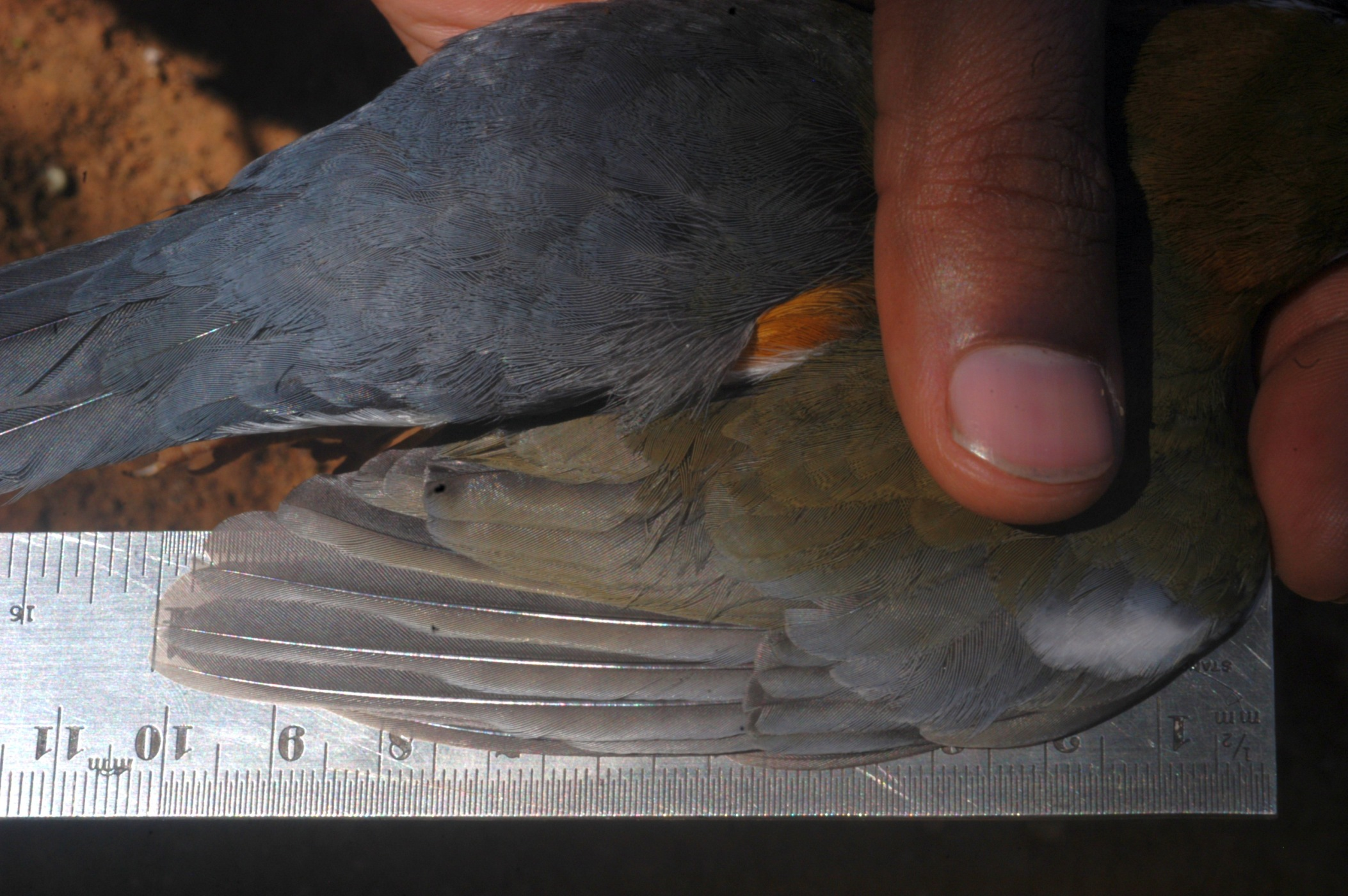 Measuring wing of Orange headed Thrush - Zoothera citrina cyanotus